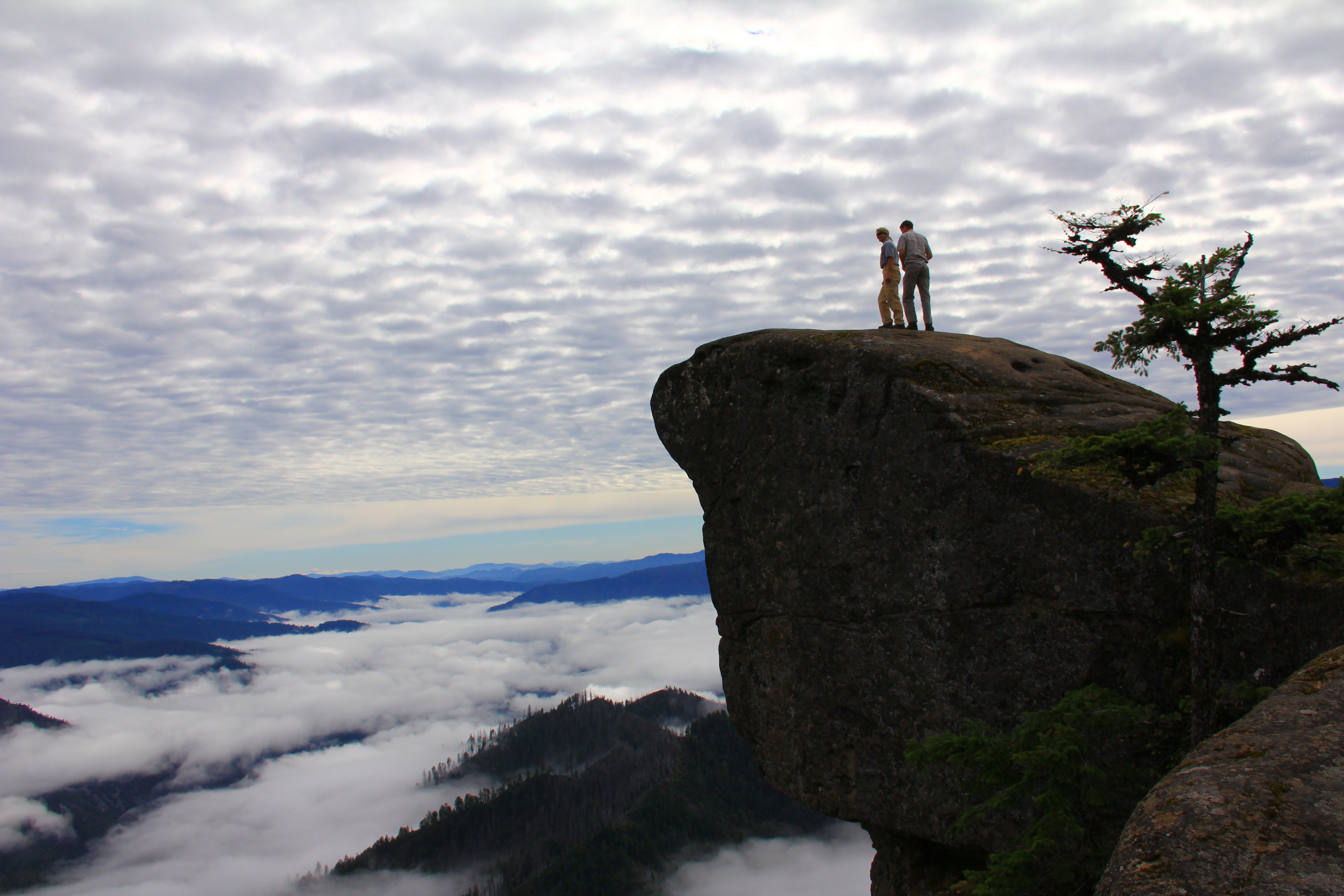 Wild Rogue Wilderness Photo by Jacob Holden